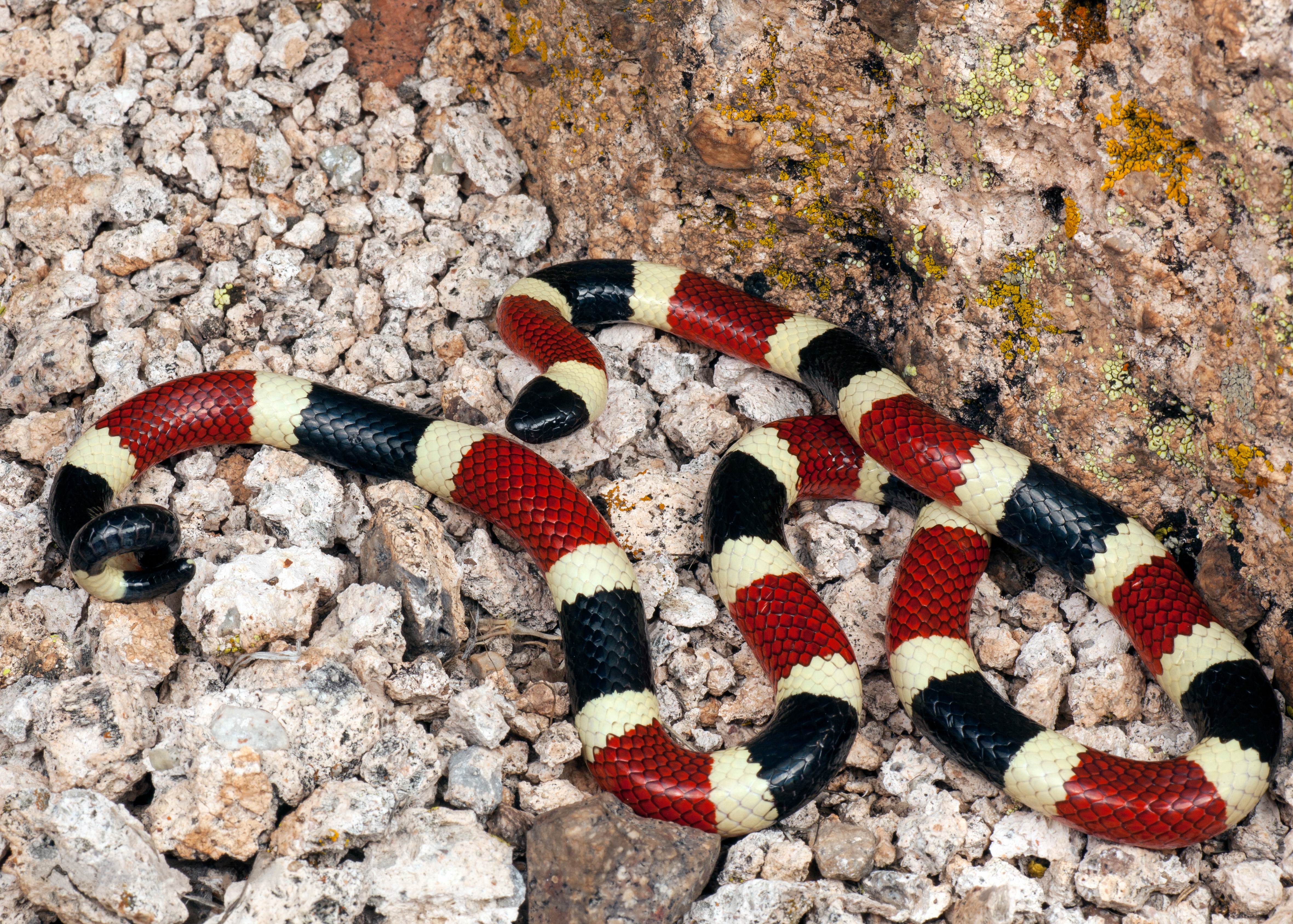 Sonoran coral snake (Micruroides euryxanthus).